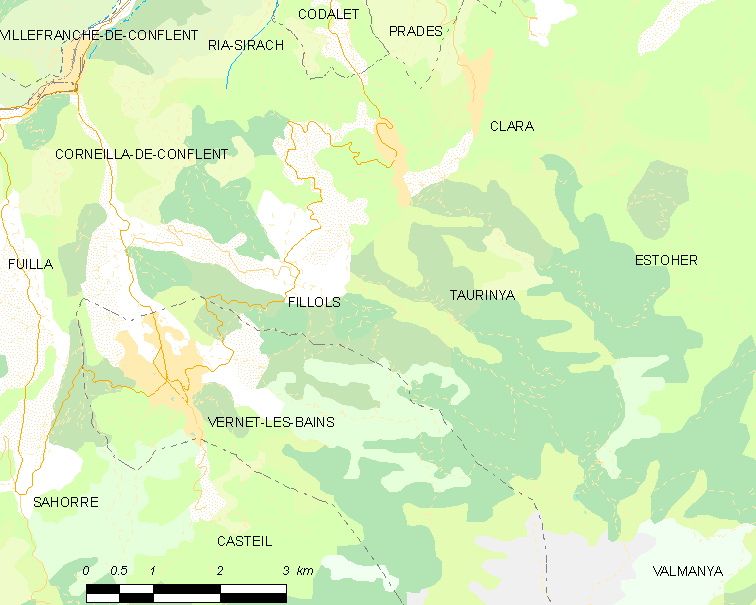 Map of French municipality